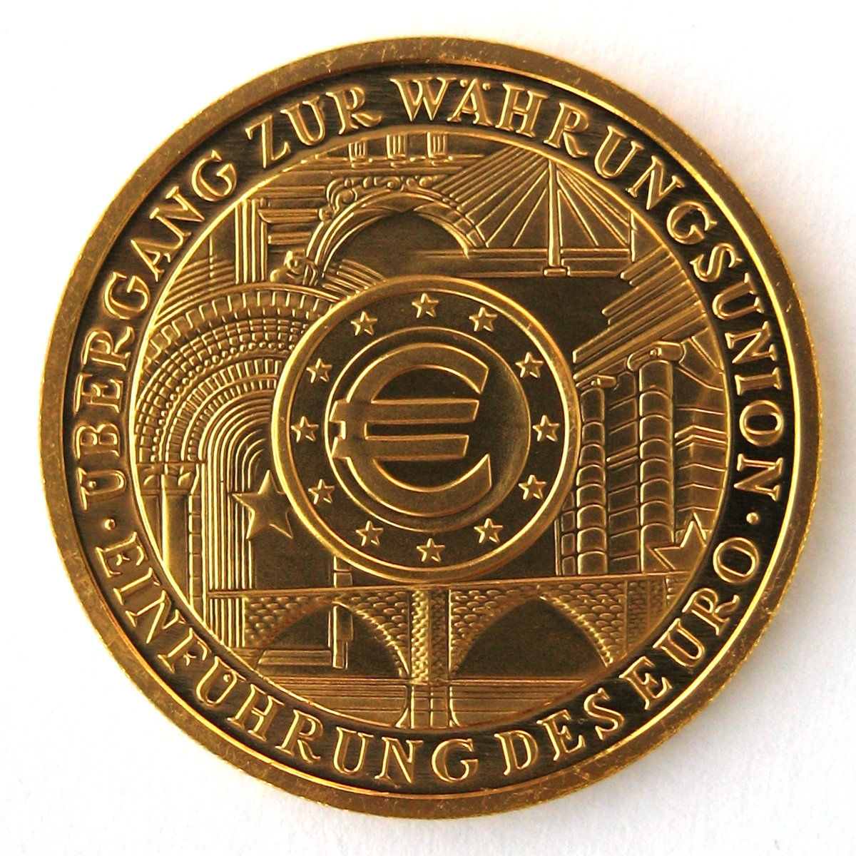 German Gold Euro 2002